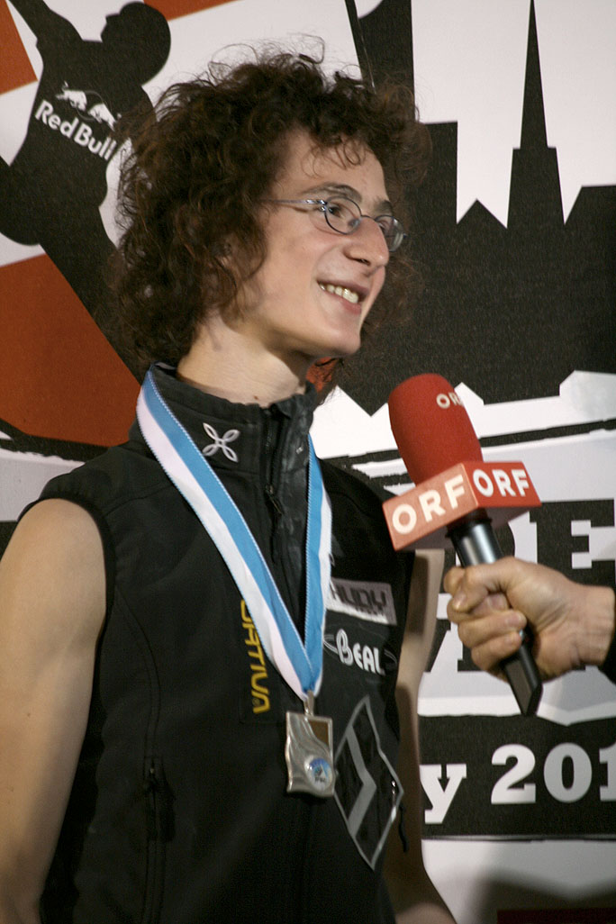 Adam Ondra, 2nd placed at the IFSC Boulder Worldcup Vienna 2010.